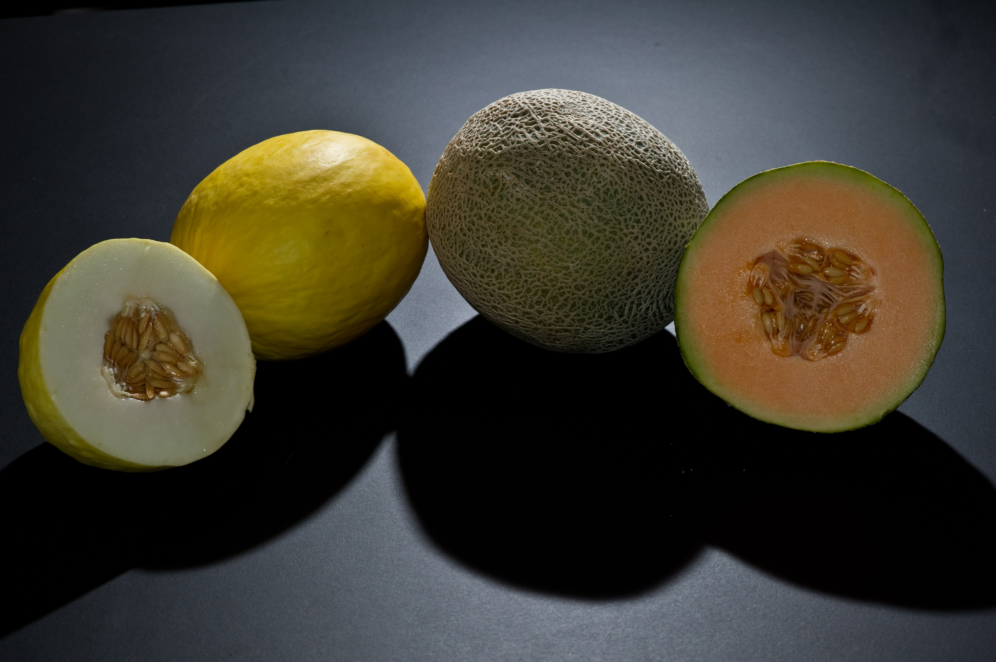 View of cantaloupe and canary melons cut and whole. Picture by Bill Ebbesen.